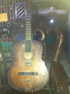 Picture of a Guitar phím lõm, an instrument derived from a guitar with the neck scooped out between the frets to give the musician more options for bending the pitch.